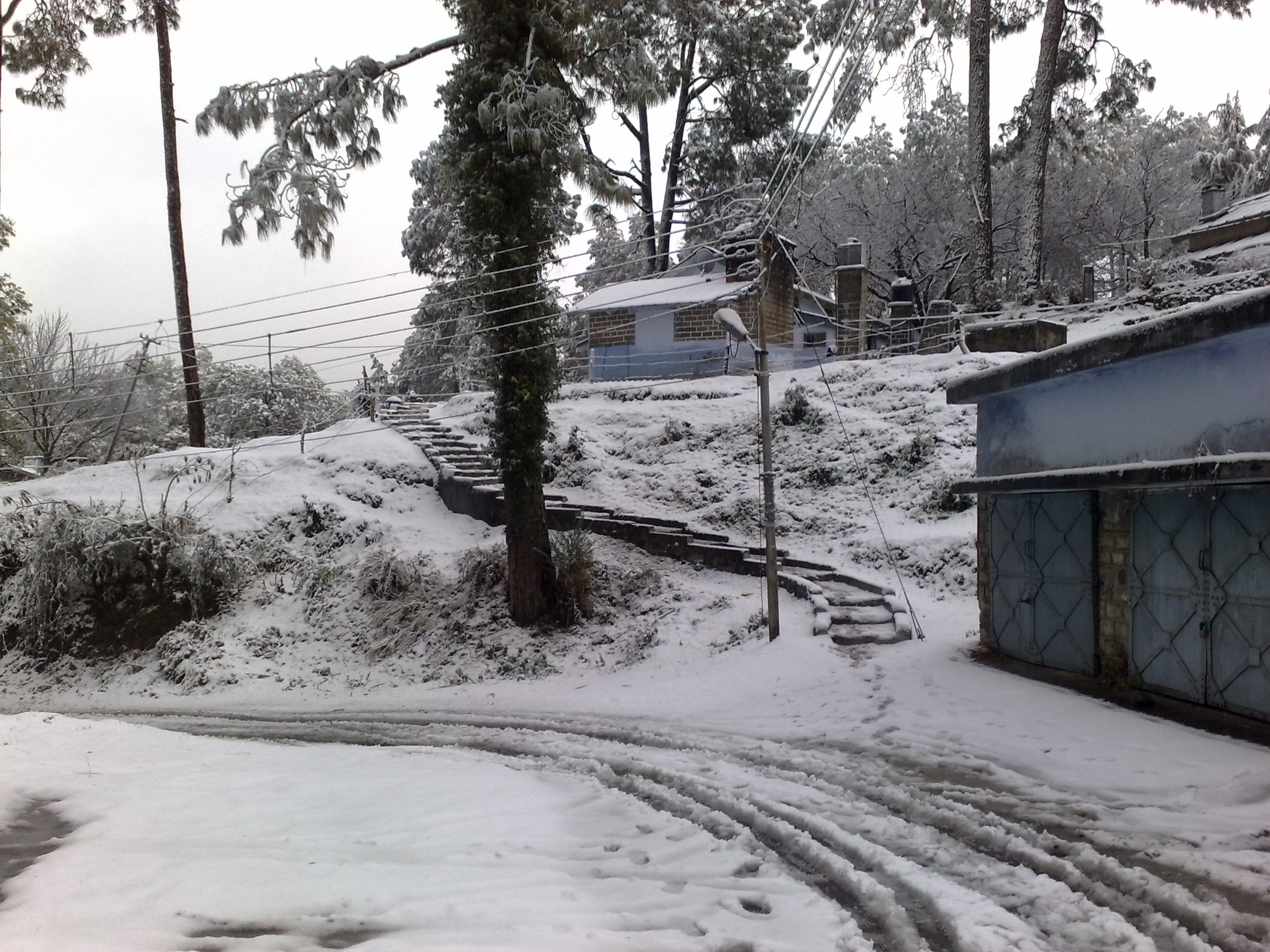 Ranikhet after Snowfall, India